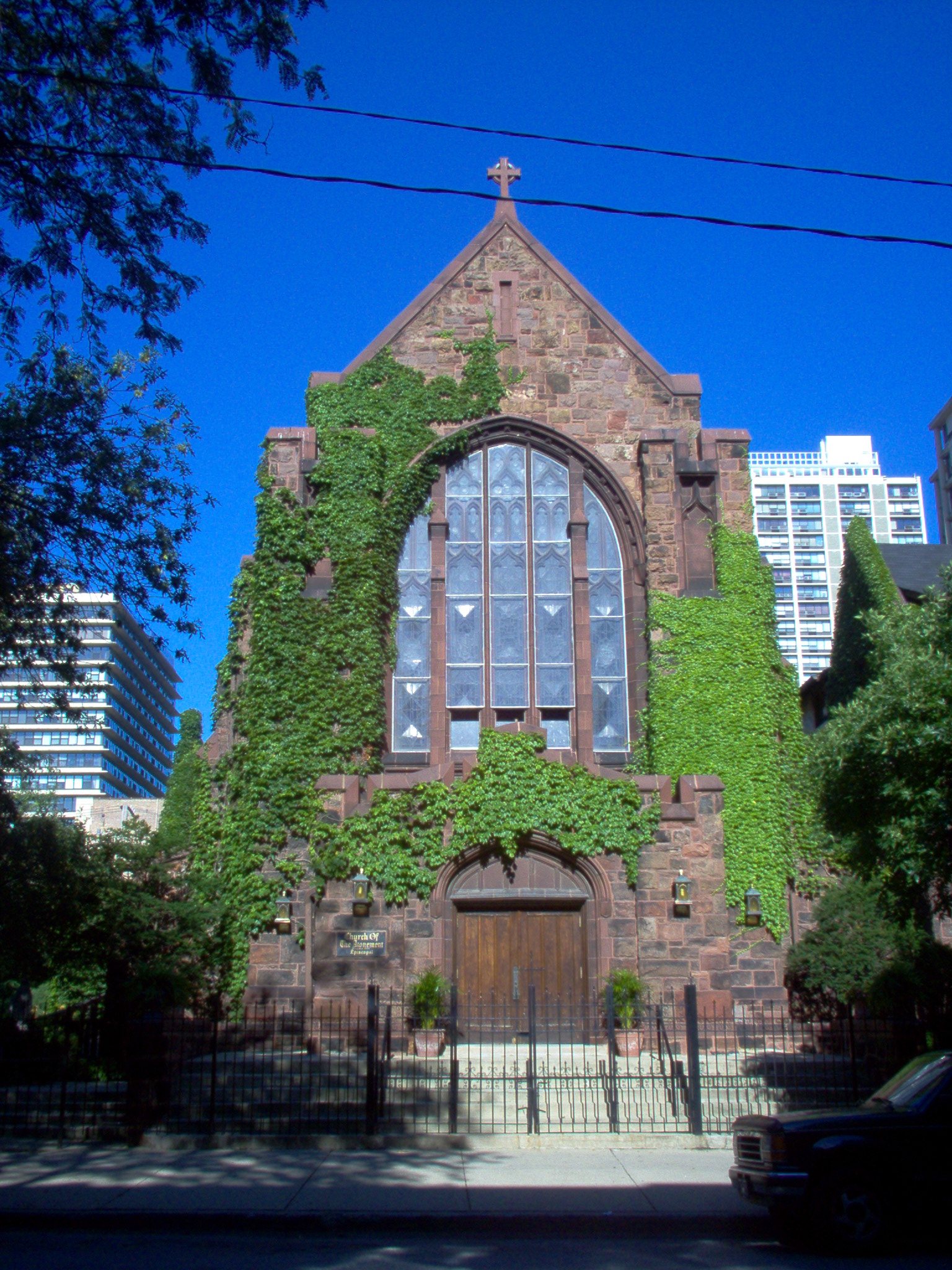 Photo by Gerald Farinas of Church of the Atonement, a parish of the Episcopal Diocese of Chicago in the Edgewater neighborhood of Chicago, Illinois taken on July 14, 2006.